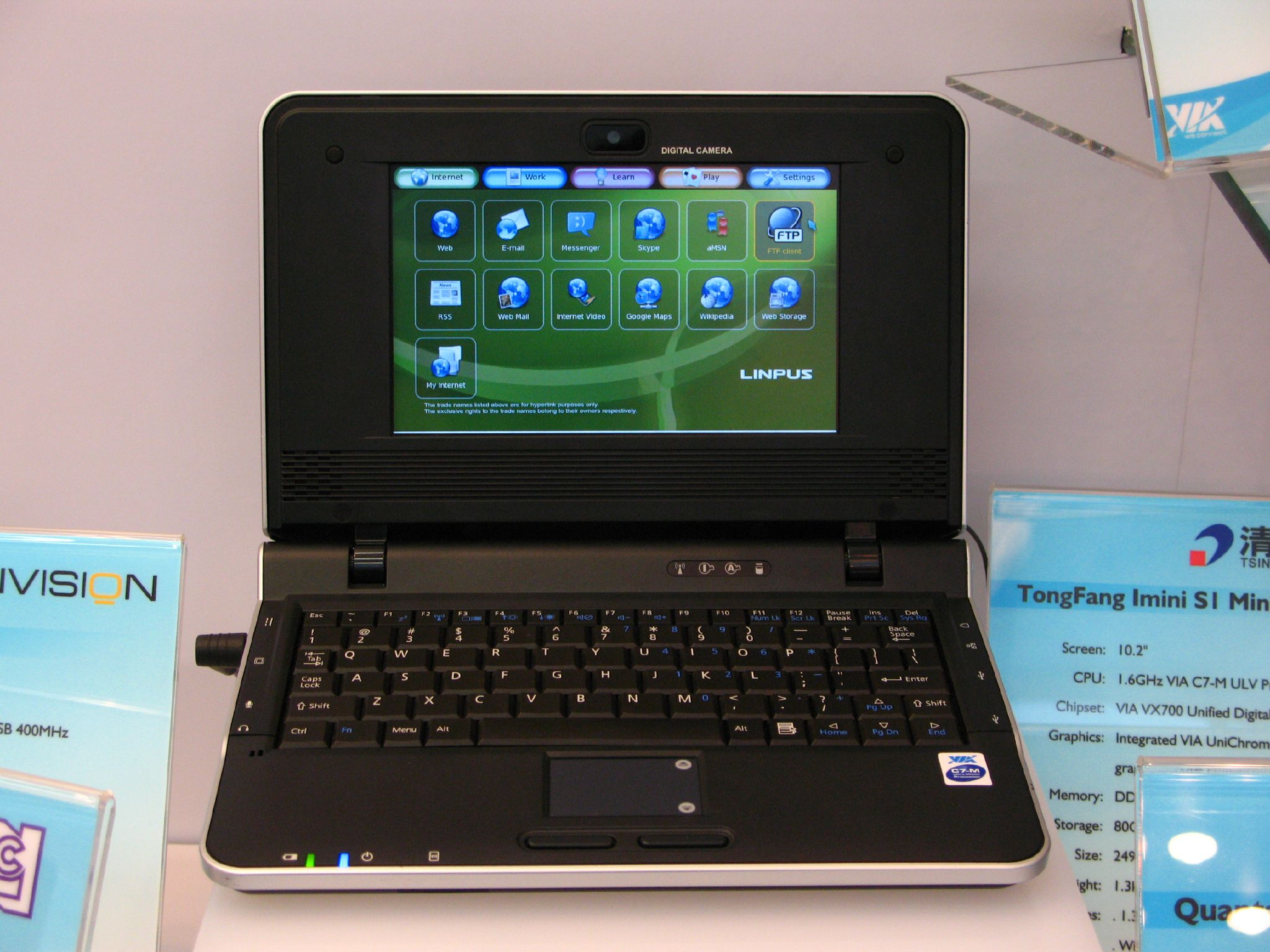 Quanta ILI Mini-note based on VIA C7-M CPU. Linpus Linux on display採用威盛電子C7-M處理器的廣達電腦ILI小筆電，作業系統為Linpus Linux